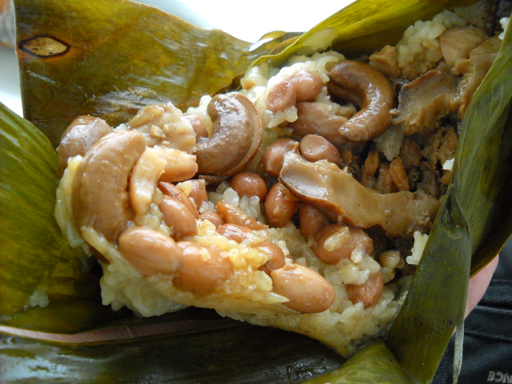 Bakcang fillings, Jakarta.